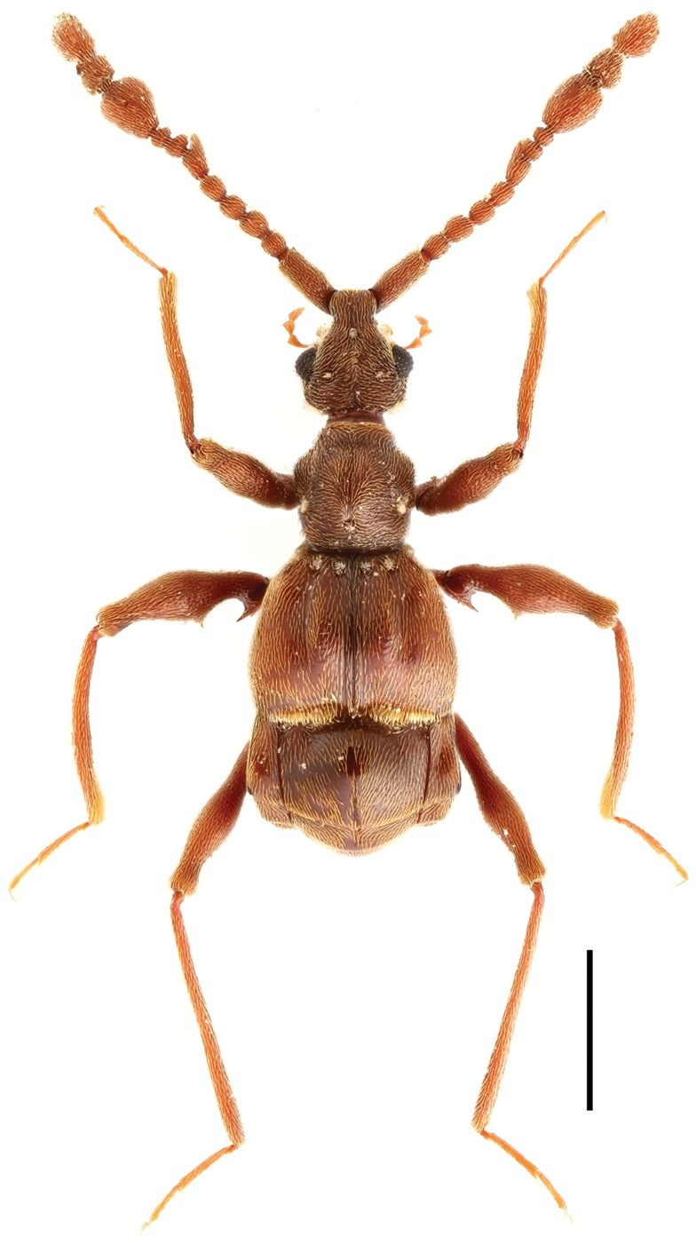 Male habitus of Pselaphodes pengi. Scale: 1.0 mm.